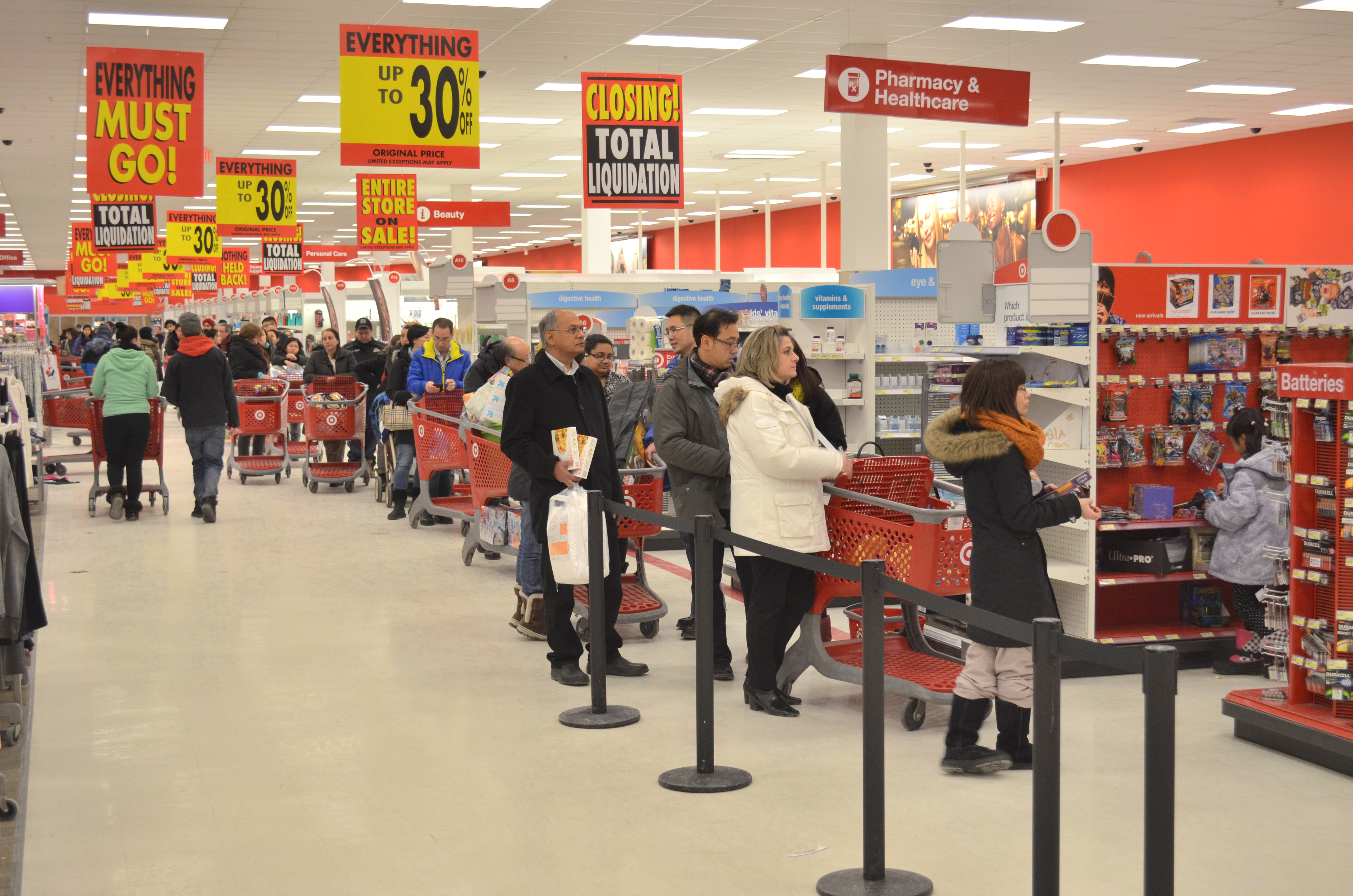 Target closing sale - long lineup. Target at Hillcrest Mall, Ontario